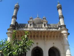 Historic Adil Shahi Masjid in Sampgaun